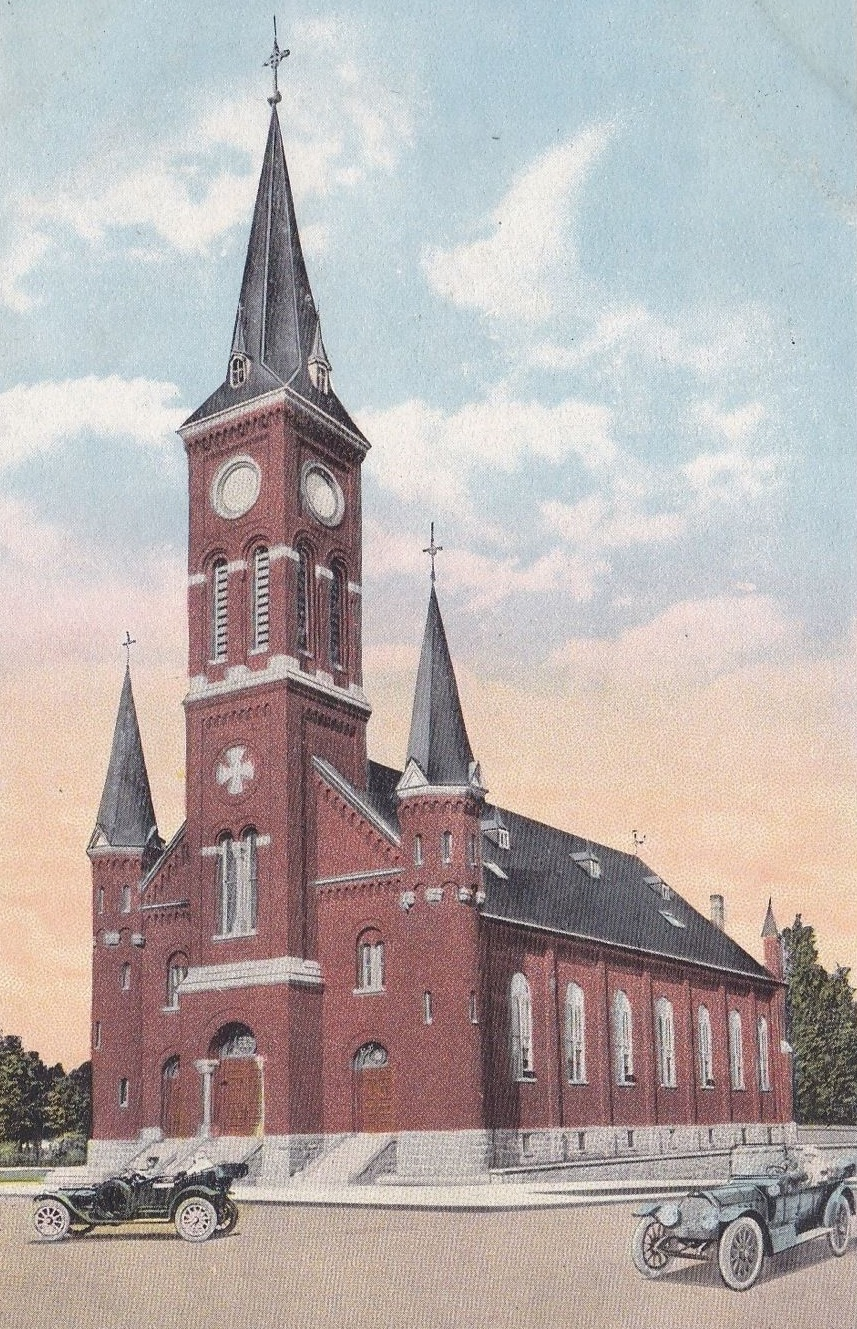 Postcard by C.T. American Art mailed 1917 showing Holy Angels Cathedral in St. Cloud, Minnesota, United States